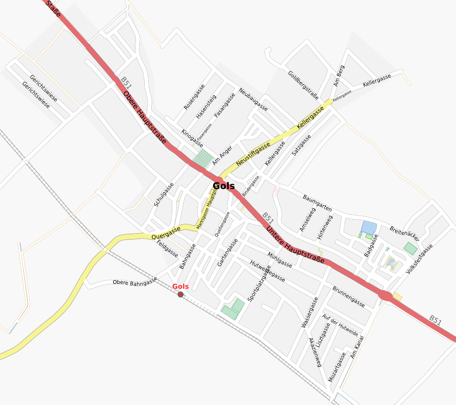 map of the Austrian village Gols This map may be incomplete, and may contain errors. Don't rely solely on it for navigation.